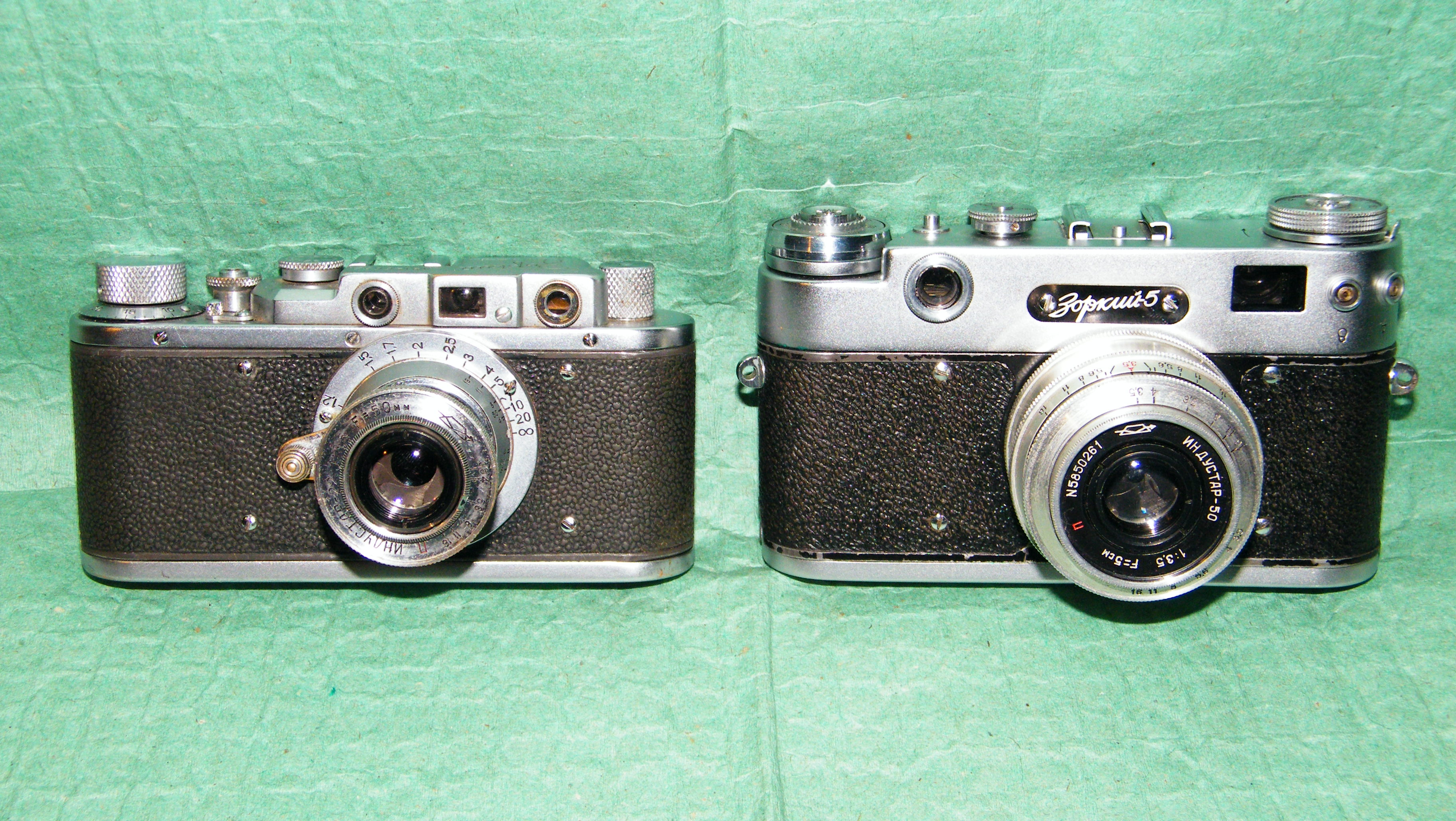 Zorki and Zorki 5